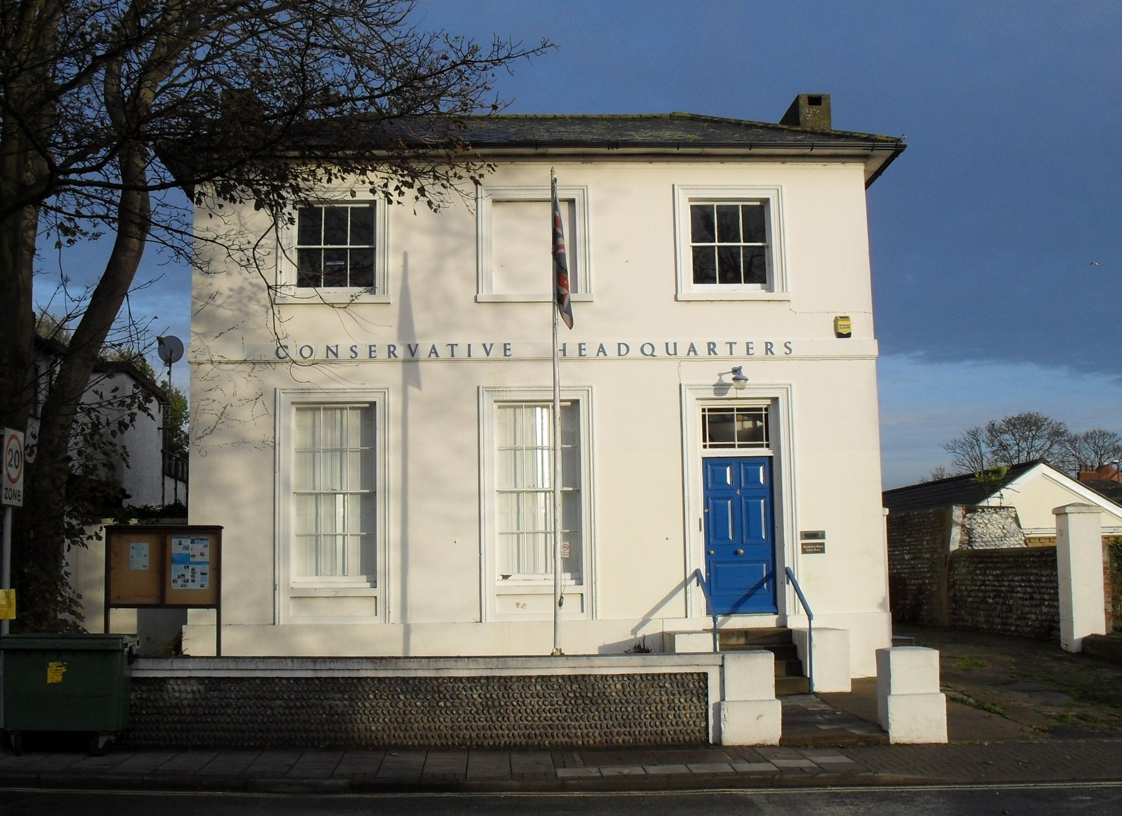 Conservative Party Headquarters, Union Place, Worthing, West Sussex, England, seen from the south. A detached house built in the mid-19th century.